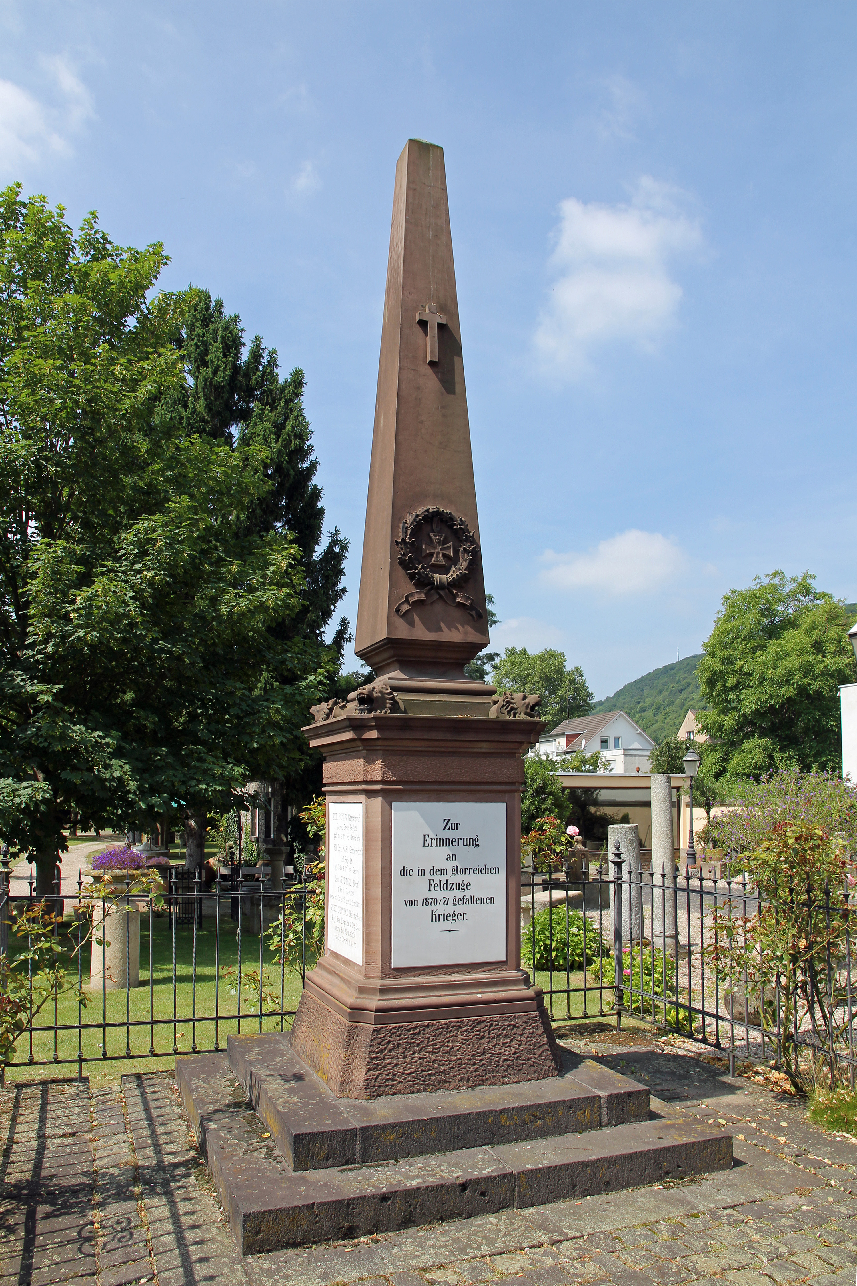 War memorial in Bad Breisig